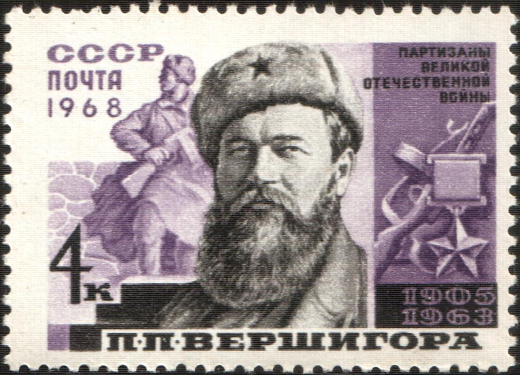 USSR stamp: USSR Partisan World War II Hero Major General Pyotr Vershigora. Series: Partisans of Great Patriotic War 1941–1945, Heroes of the Soviet Union